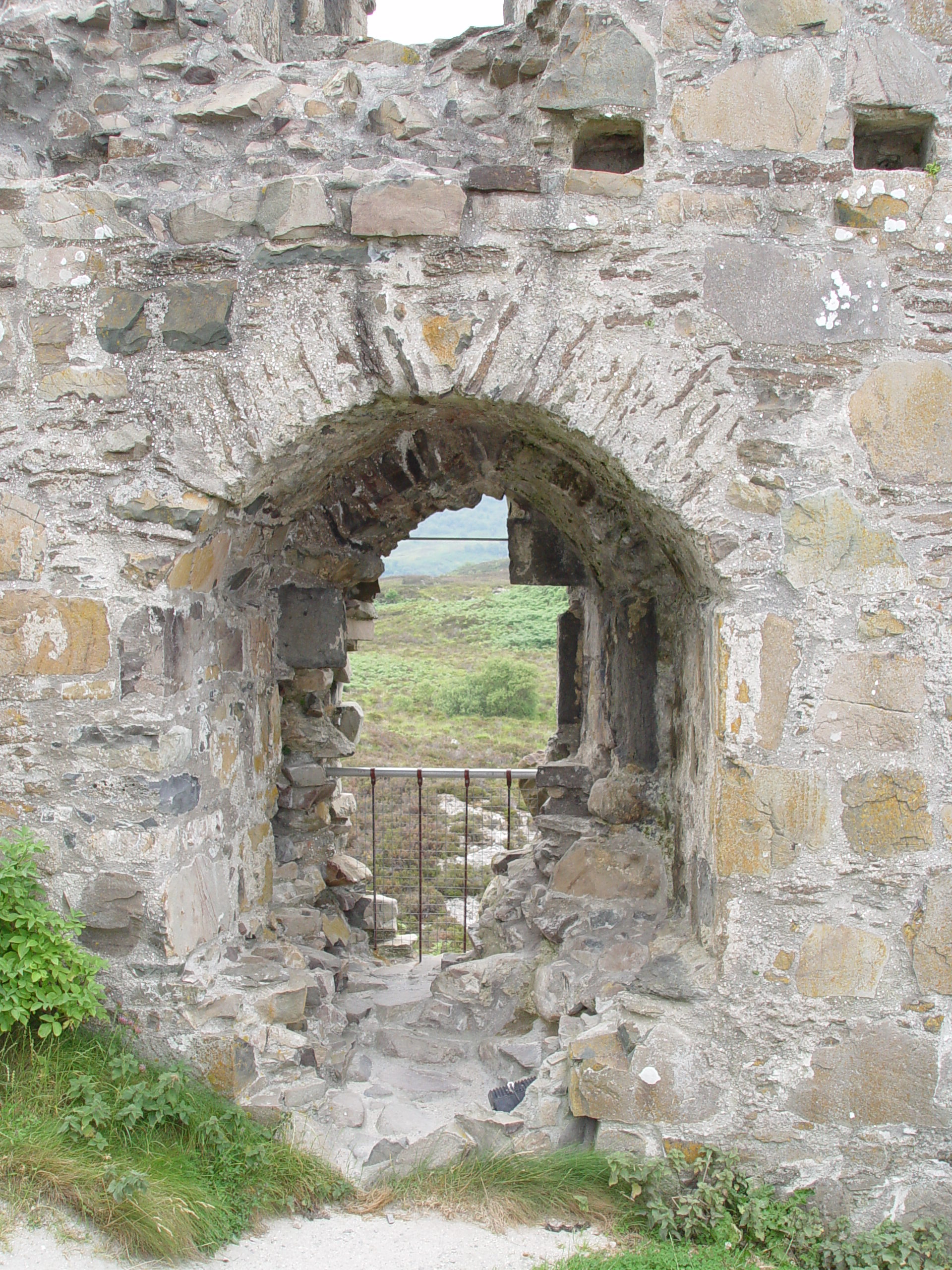 Interior view of a large window on the 1st level of Dunakin Castle (aka, Caisteal Maol), Isle of Skye, Scotland. The thickness of the walls is very apparent.